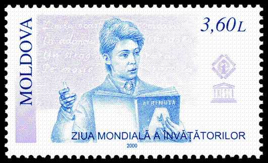 Stamp of Moldova